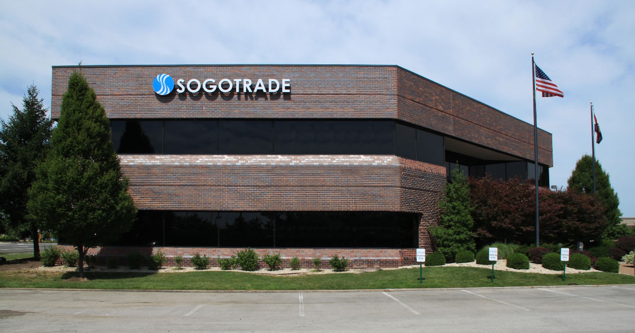 SogoTrade Midwest St. Louis Service Center